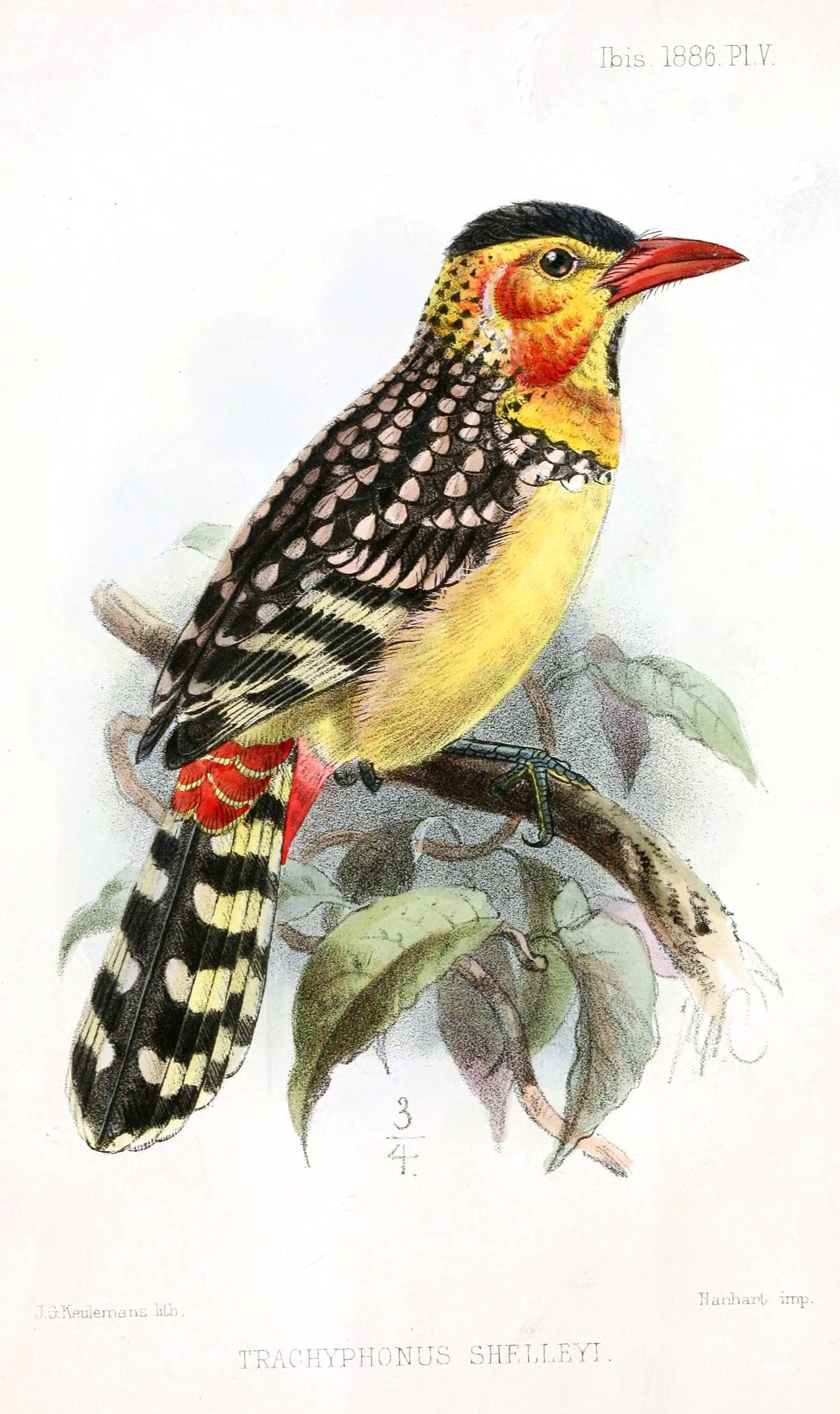 Trachyphonus erythrocephalus shelleyi